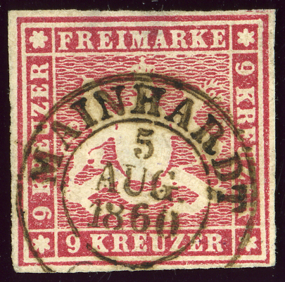 Kingdom of Wurtemberg 9 kreuzer issue 1859 stamp, without silk thread, 2-rings cancelled at MAINHARDT in 1860.